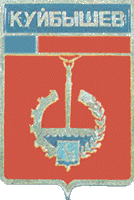 Coat of Arms of Kubyshev